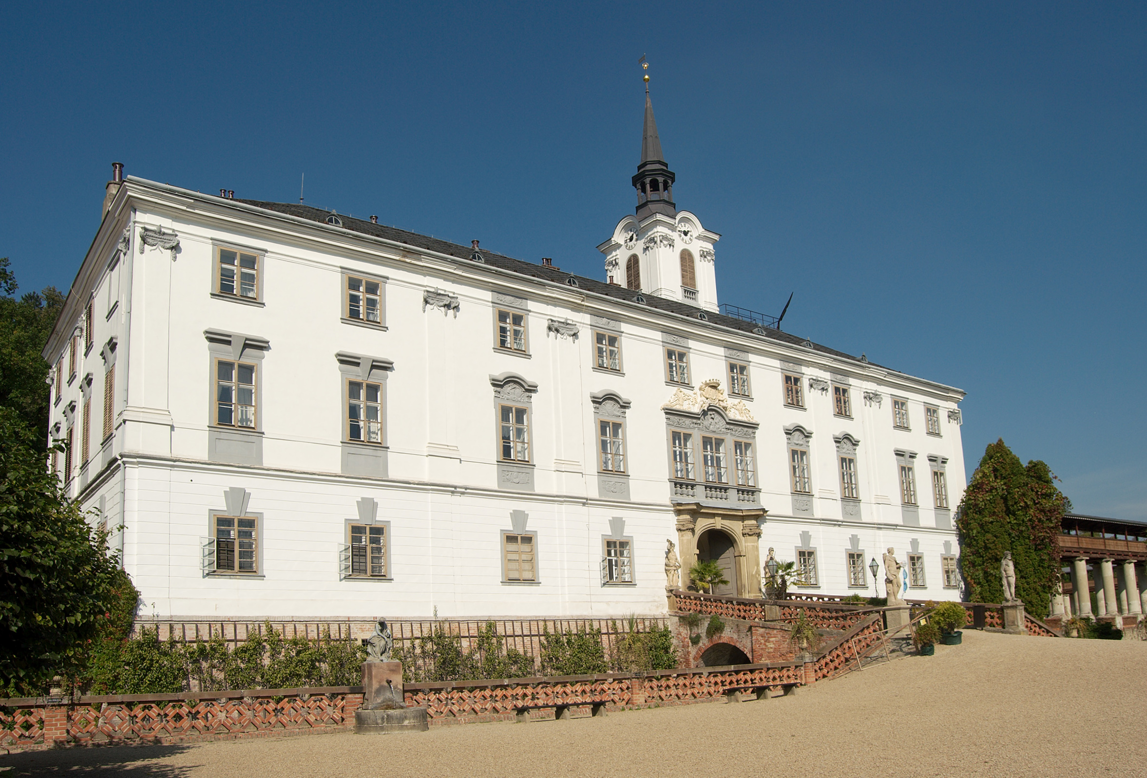 Castle Lysice, Moravia, Czech republic